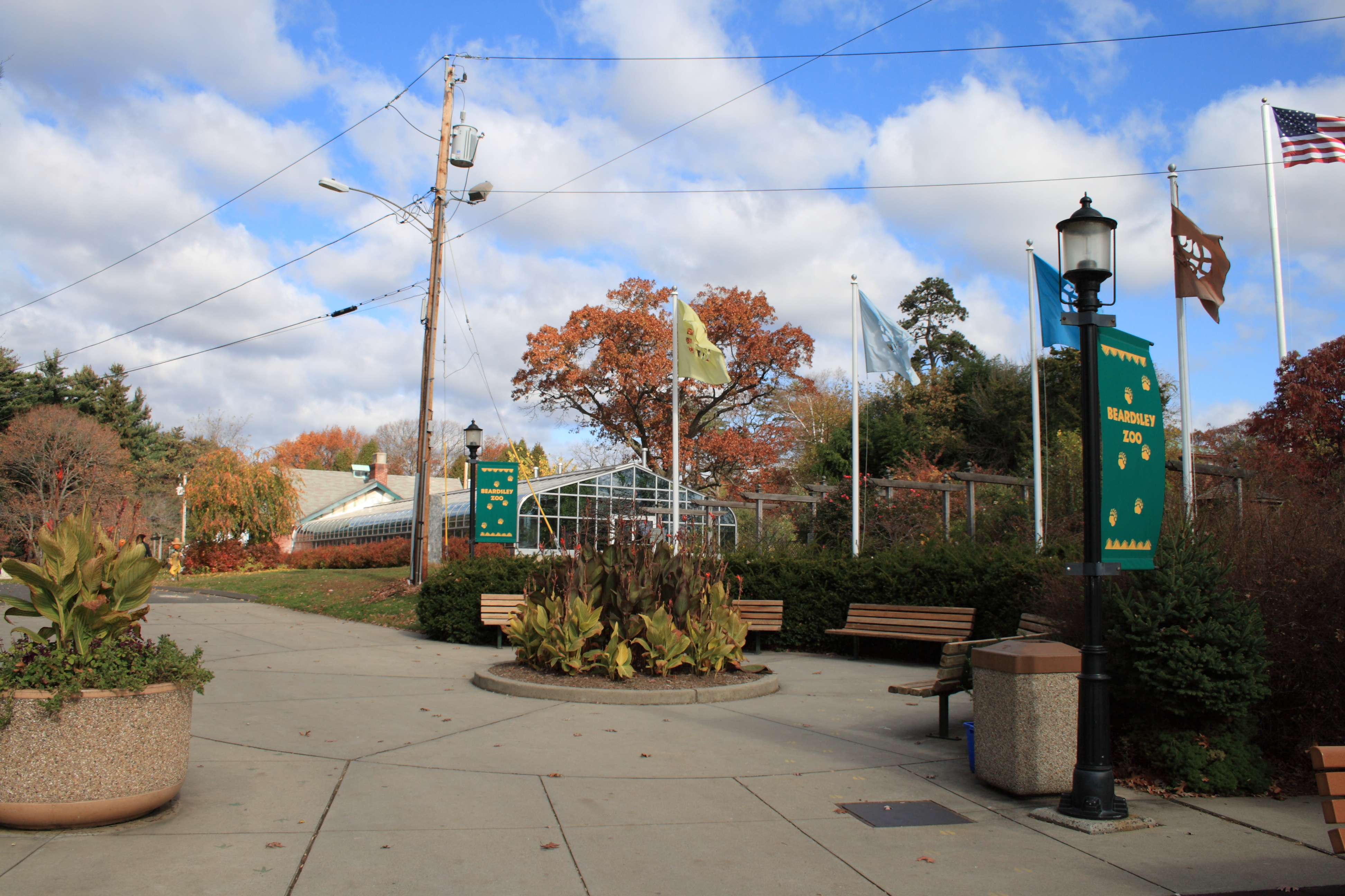 A view from just inside the entrance at Beardsley Zoo